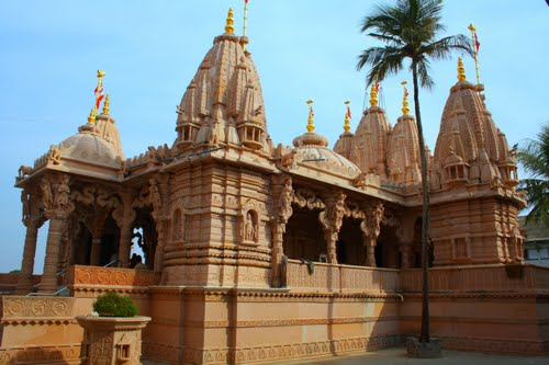 Shree Swaminarayan Mandir Ta.: Dholera, Dist. Ahmedabad Dholera-382455